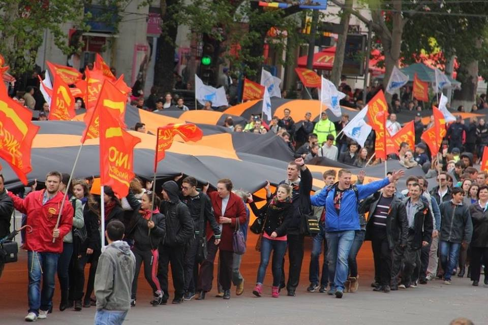 Движение "Родина - Евразийский Союз" растянуло георгиевскую ленту в Молдавии